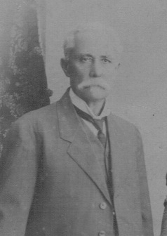 Franklin Gomes Souto (1844-1915), Brazilian lawyer and abolitionist